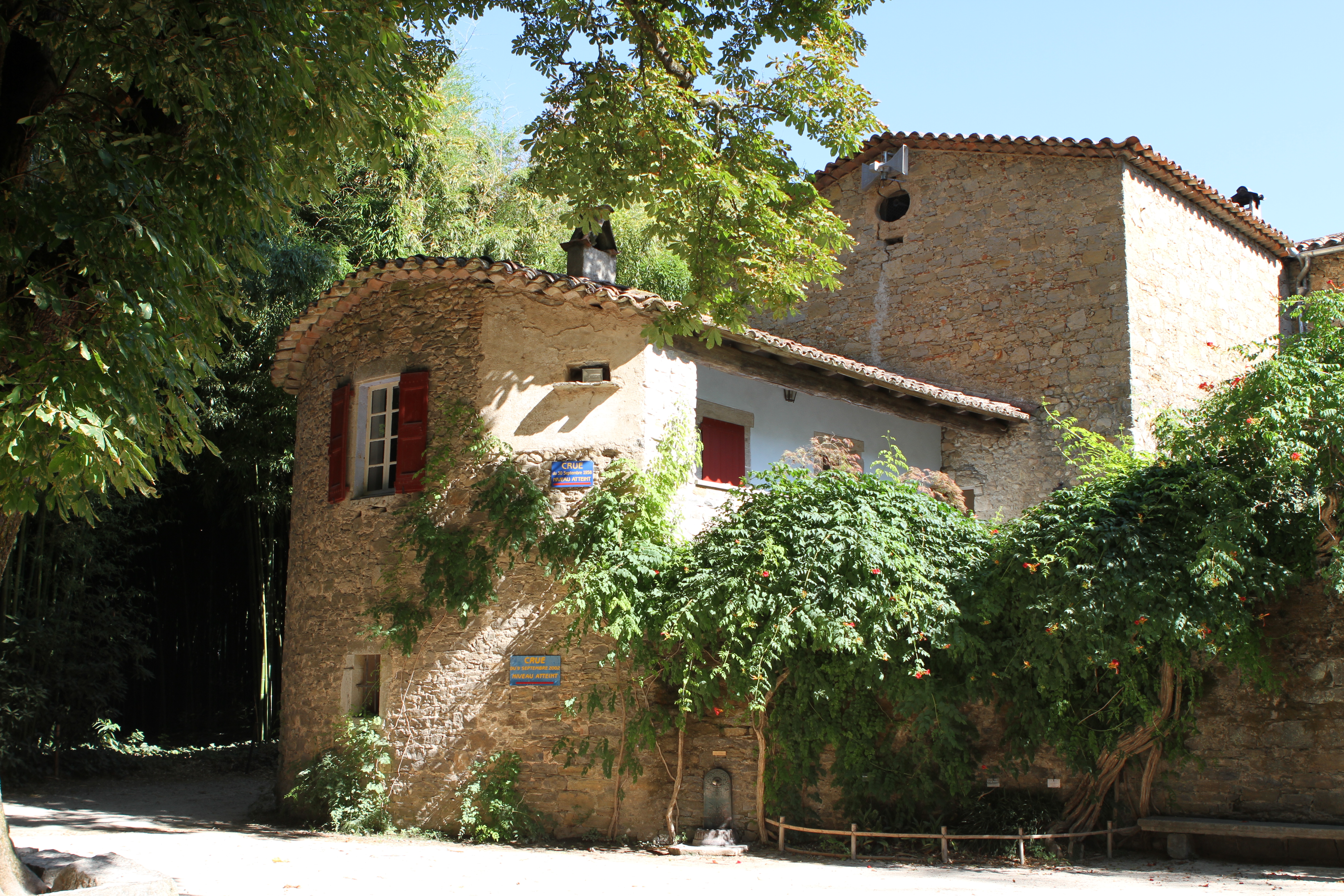 Bambouseraie de Prafrance (Gard, France)